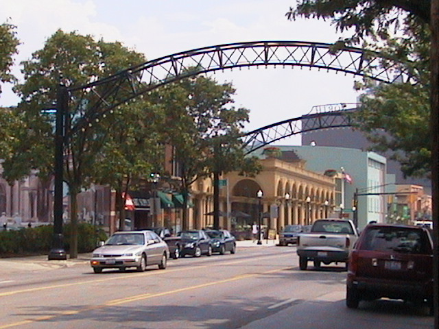 Arches span the breadth of High Street in Columbus, Ohio. Digital photo taken July 15, 2005.